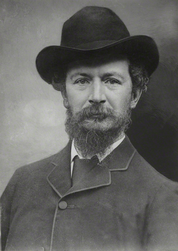 Picture of Algernon Charles Swinburne, by John McLanachan, 1894